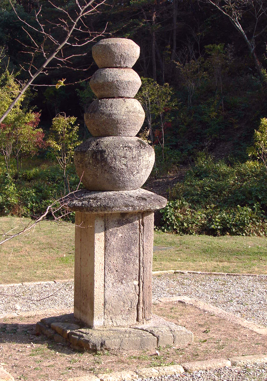 Balwoohyeong Dacheung Seoktap (rice-bowl-shaped multi-storied stone pagoda) at Unjusa near Gwangju (Hwasun/Yongyang)